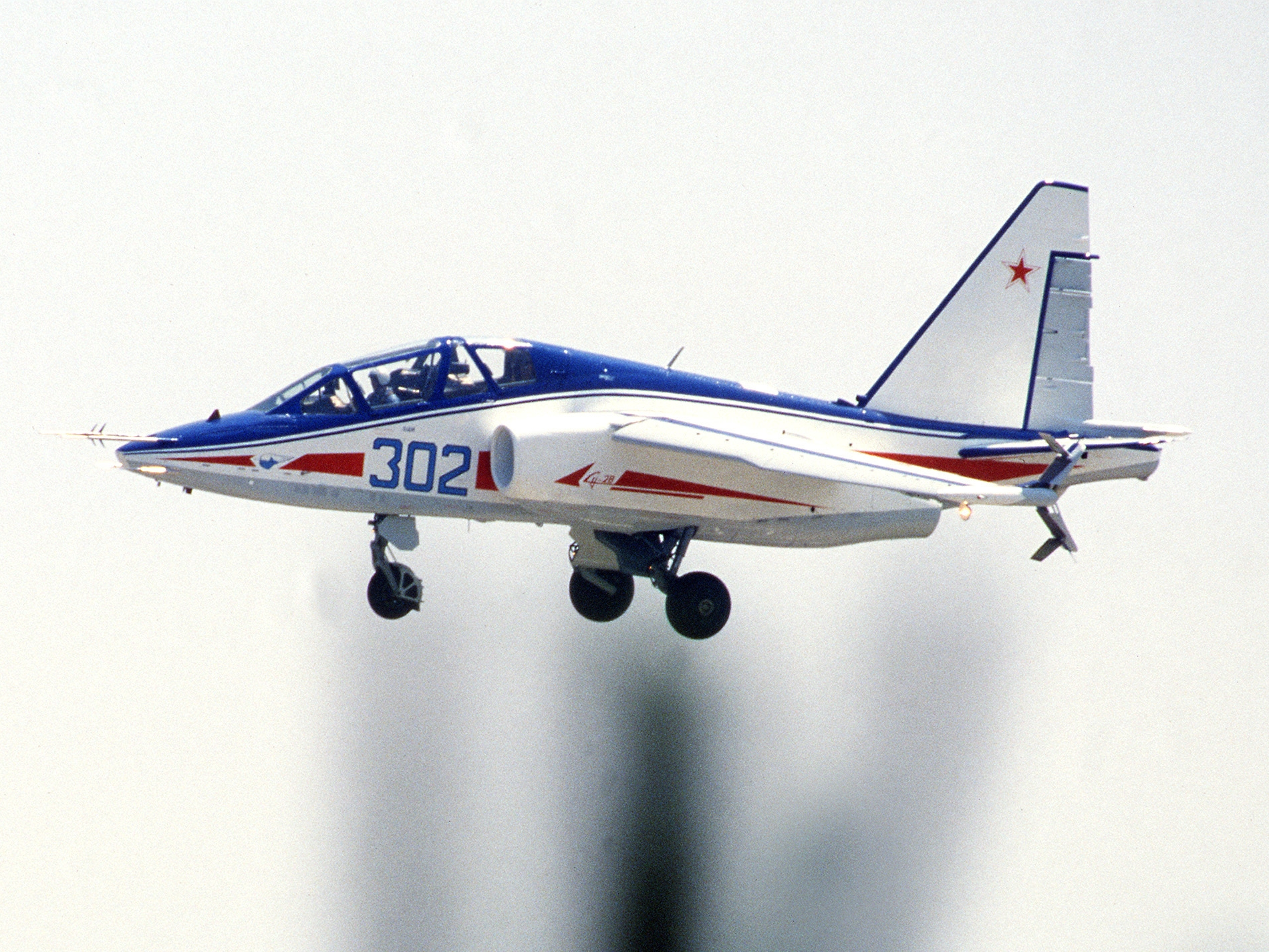 A Soviet Su-25UT Frogfoot aircraft prepares to land.